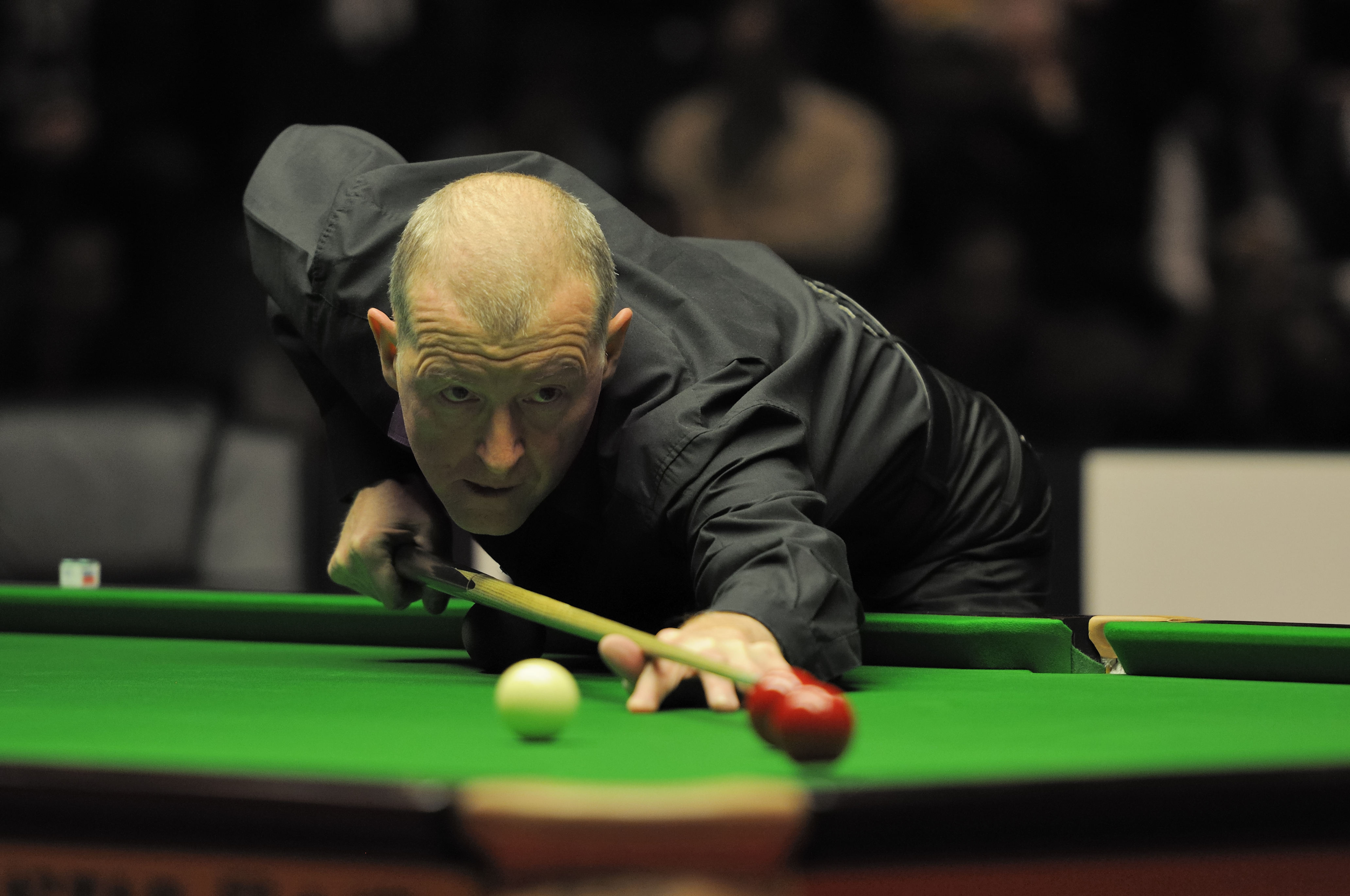 Picture taken in Berlin during the Snooker German Masters in 2011. Steve Davis.